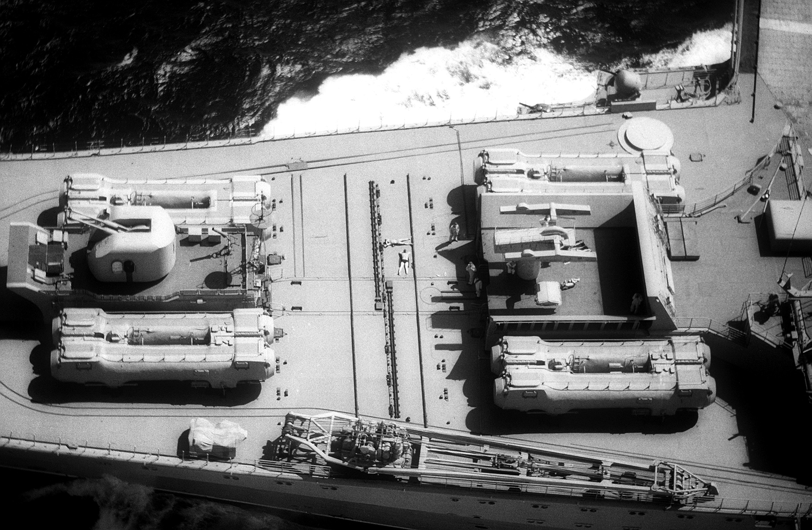 An elevated view of the bow of the Soviet aircraft carrier KIEV (CVHG) showing a 76.2mm/60-caliber anti-aircraft gun, eight SS-N-12 Sandbox missile launch tubes and an SA-N-3 missile launcher. A retracted SA-N-4 missile launcher is under the circular cover plate in the upper right.